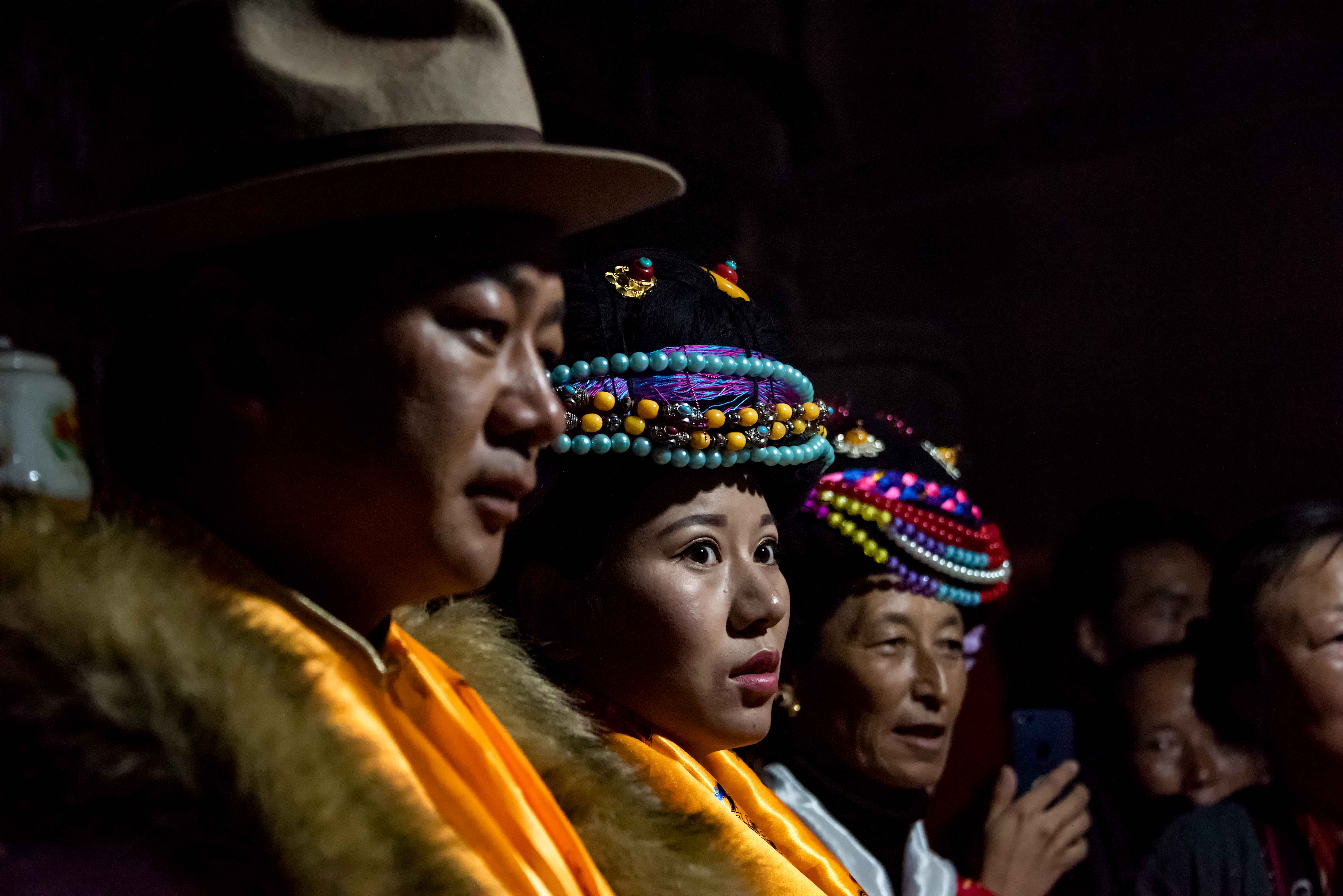 Yunnan, China